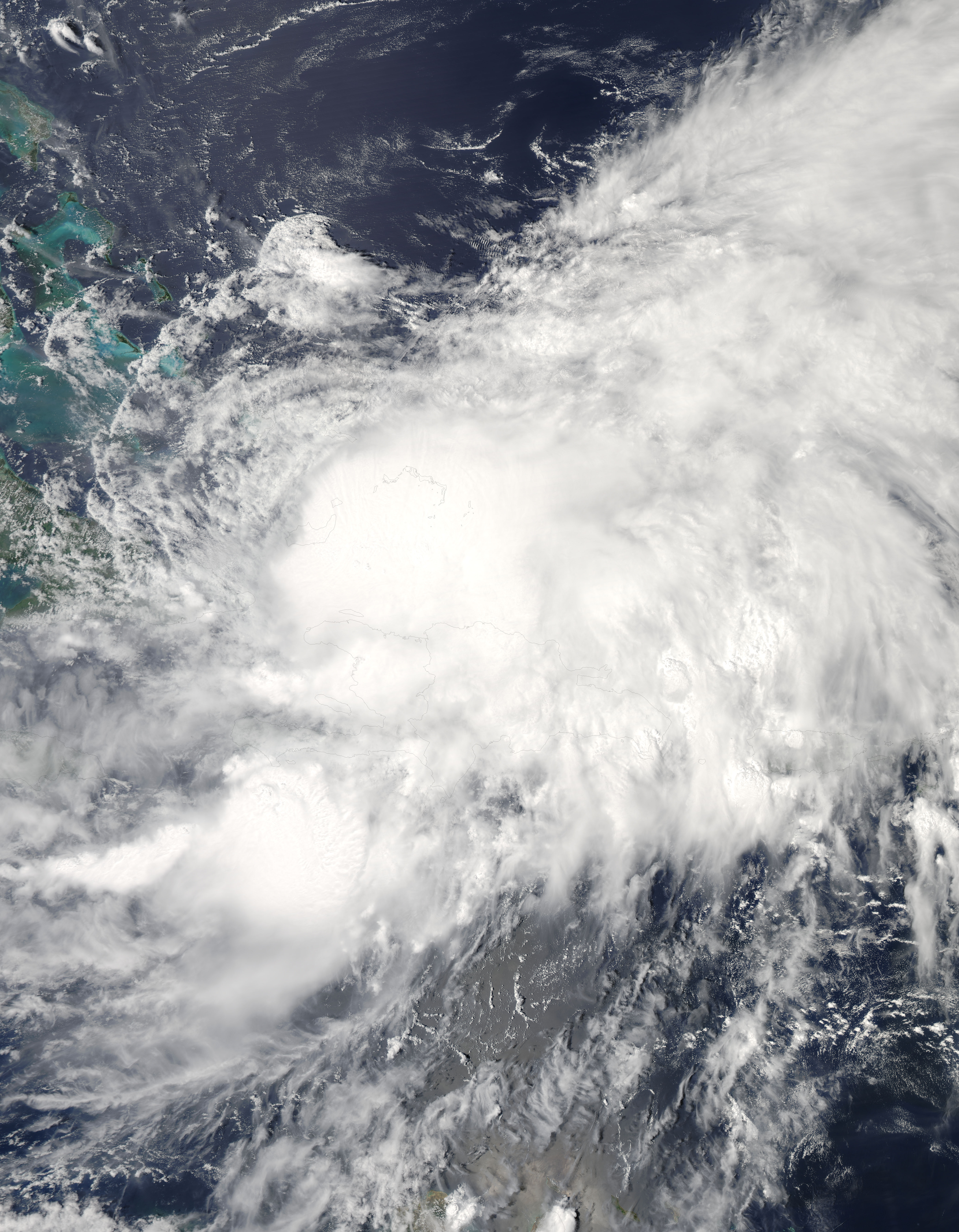 Hurricane Hanna over Hispaniola and the Bahamas in a MODIS Rapid Response System image